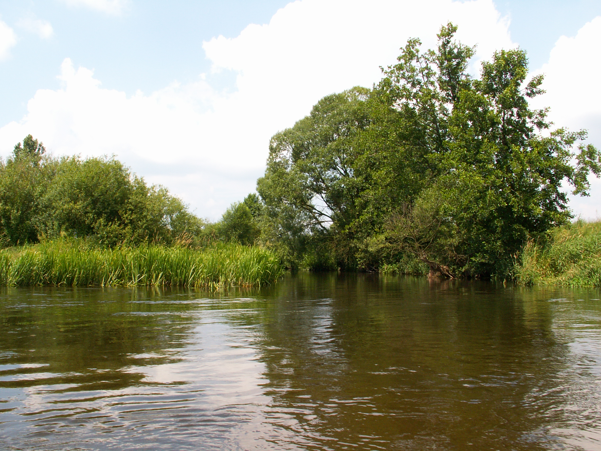 Beginning of Nida, Poland